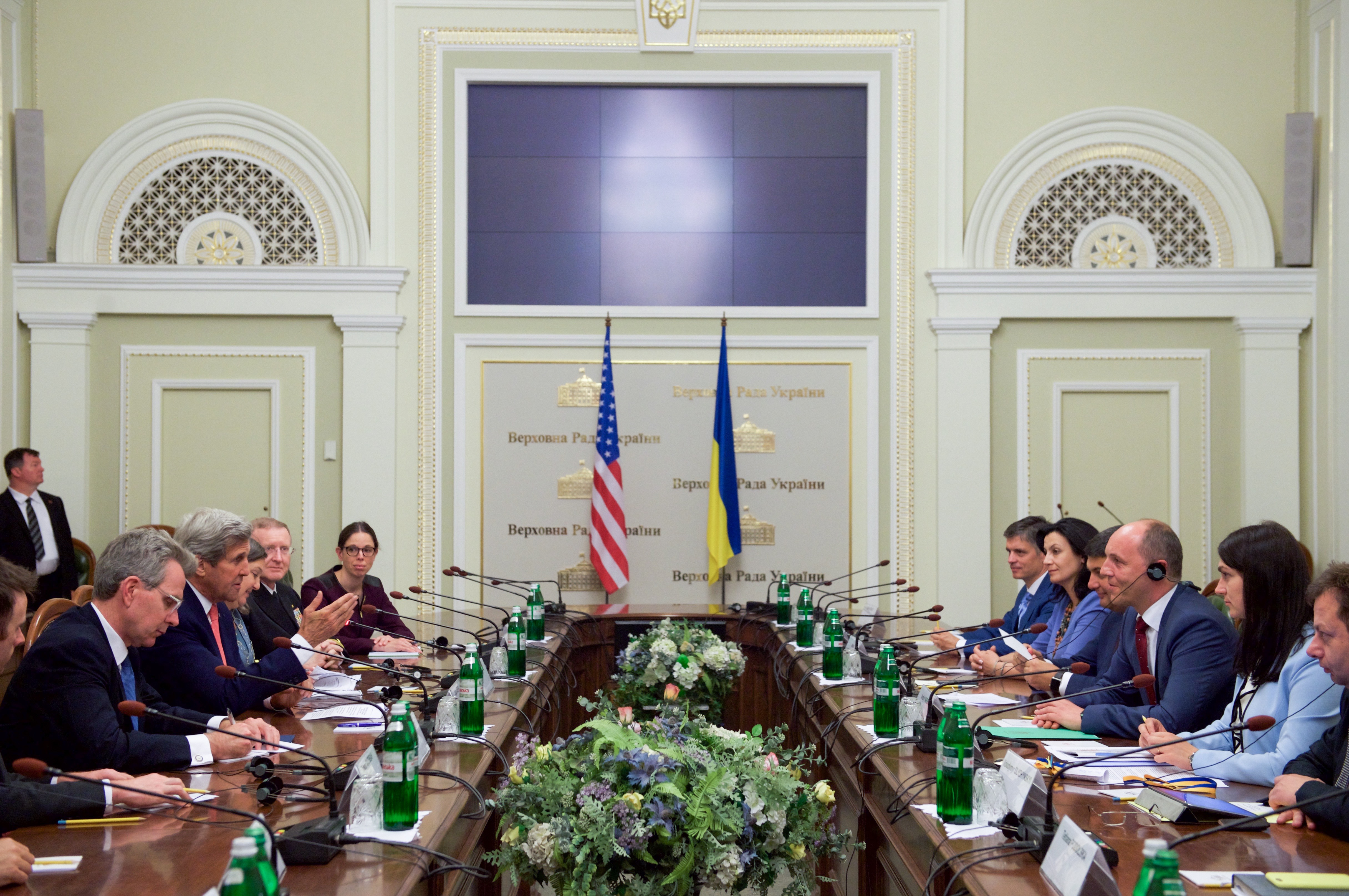 U.S. Secretary of State John Kerry makes comments to Ukrainian Prime Minister Volodymyr Groysman and Rada Speaker Andriy Parubiy at the Rada in Kyiv, Ukraine, at the outset of a meeting on July 7, 2016. [State Department Photo/ Public Domain]